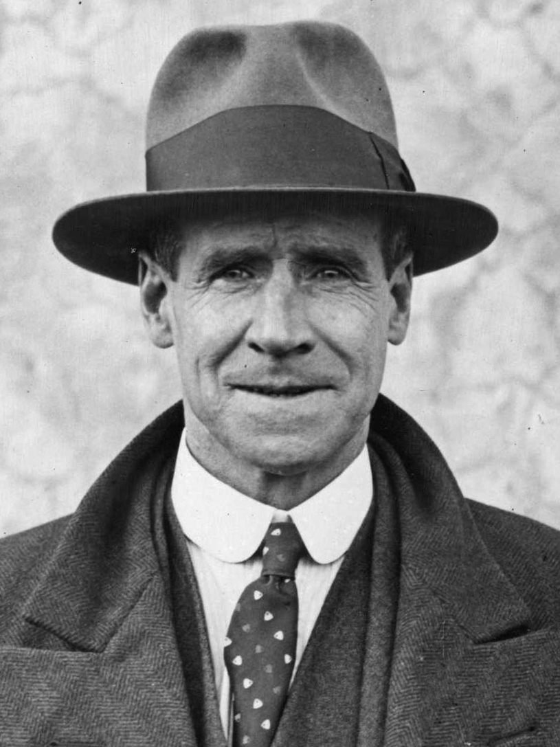 William Joseph Wallace in 1934. Photographer unidentified.